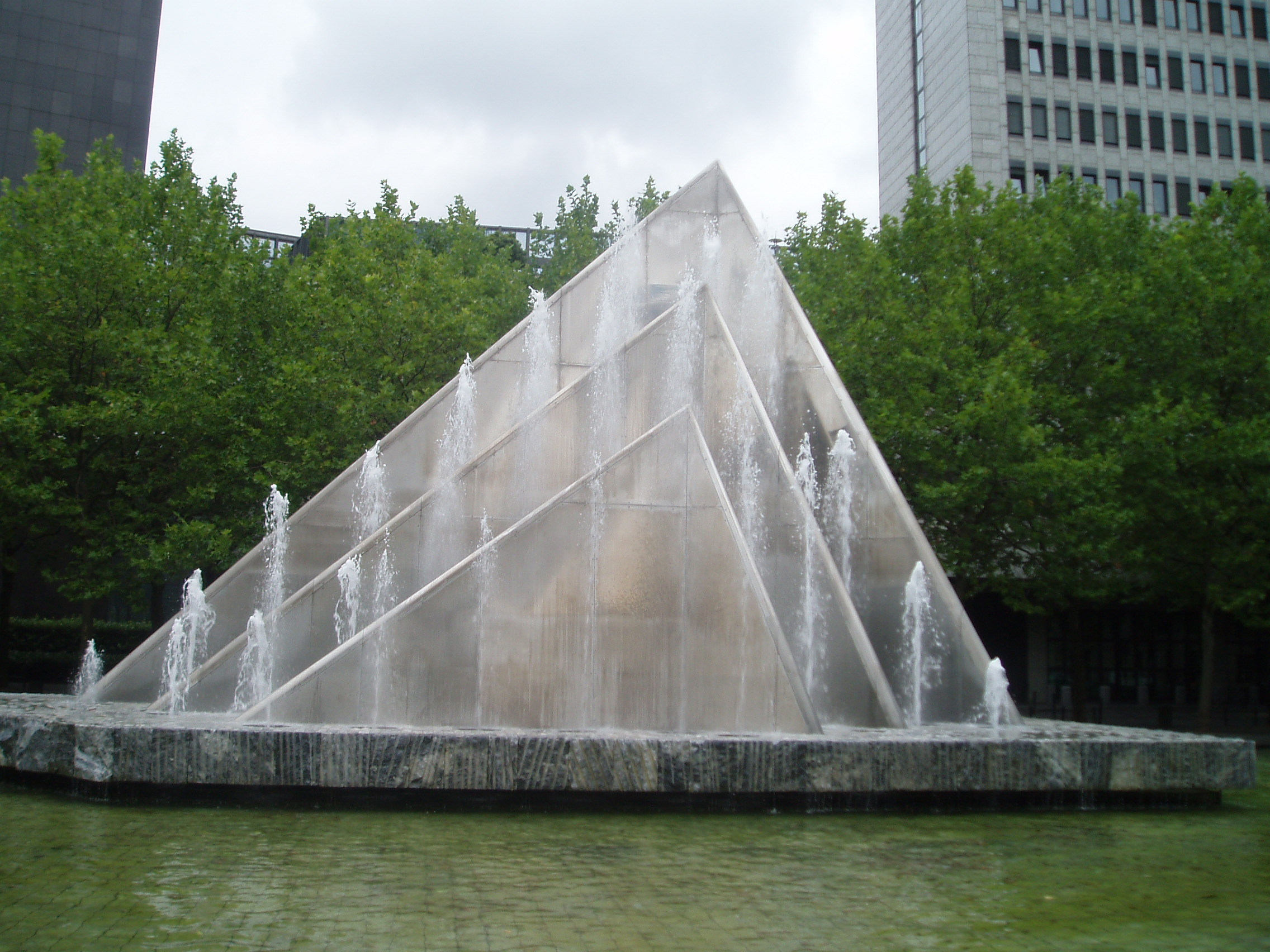 A modern art fountain in Düsseldorf by Heinz Mack Picture taken in August 2005 by Danielsp